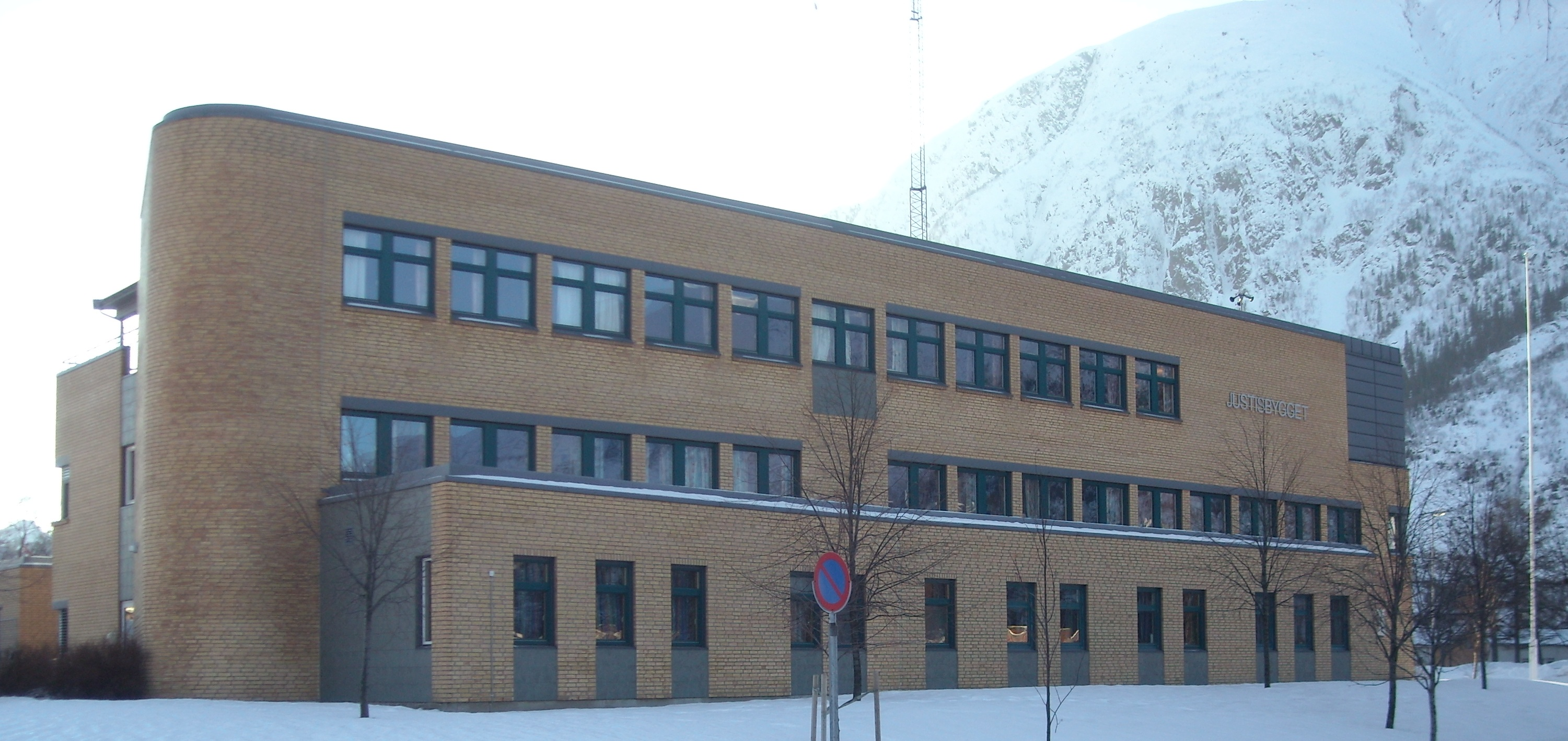 Justisbygget (lit. Building of Justice), Mosjøen in Norway.